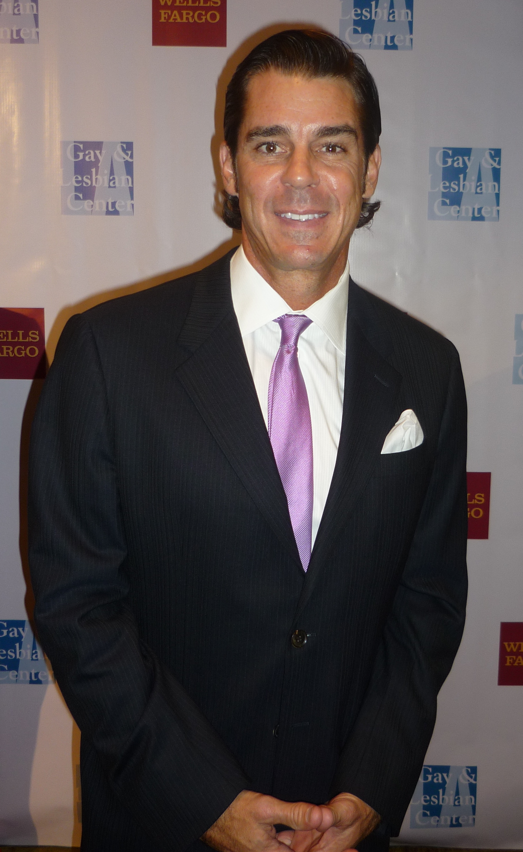 Billy Bean